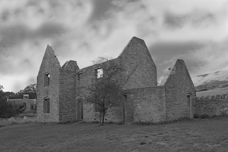 Gardeners House home to the Goulds in 1943